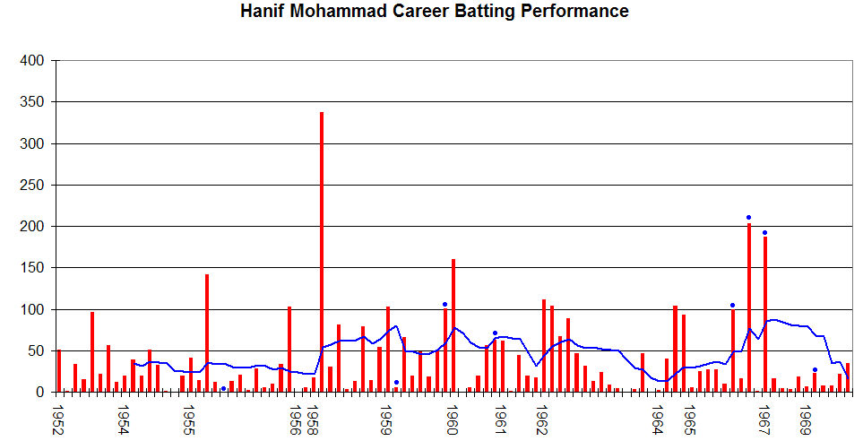 This graph details the Test Match performance of Hanif Mohammad. It was created by Raven4x4x. The red bars indicate the player's test match innings, while the blue line shows the average of the ten most recent innings at that point. Note that this average cannot be calculated for the first nine innings. The blue dots indicate innings in which Hanif finished not-out. This graph was generated with Microsoft Excel 2002, using data from Cricinfo and .au.